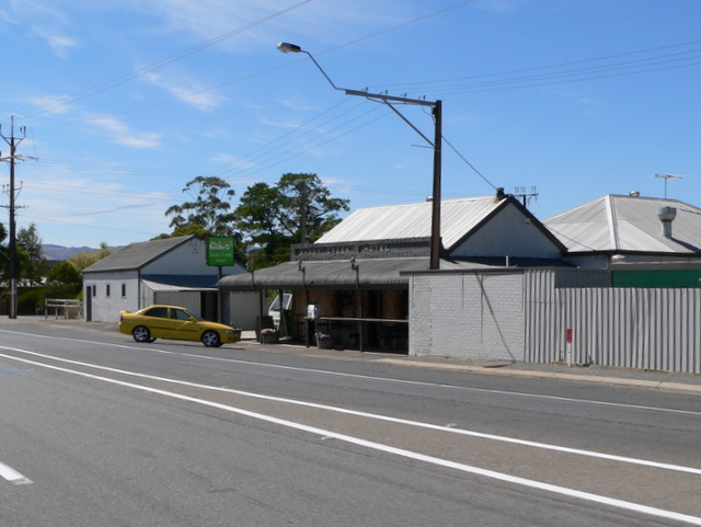 The hotel at Sandy Creek township, Barossa Valley